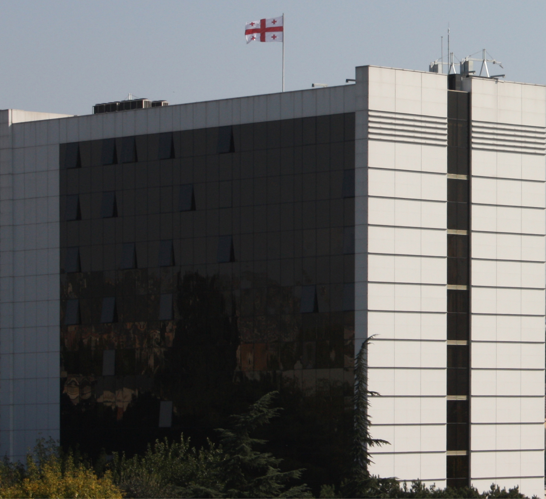 The photo of the ministry if Defense of Georgia